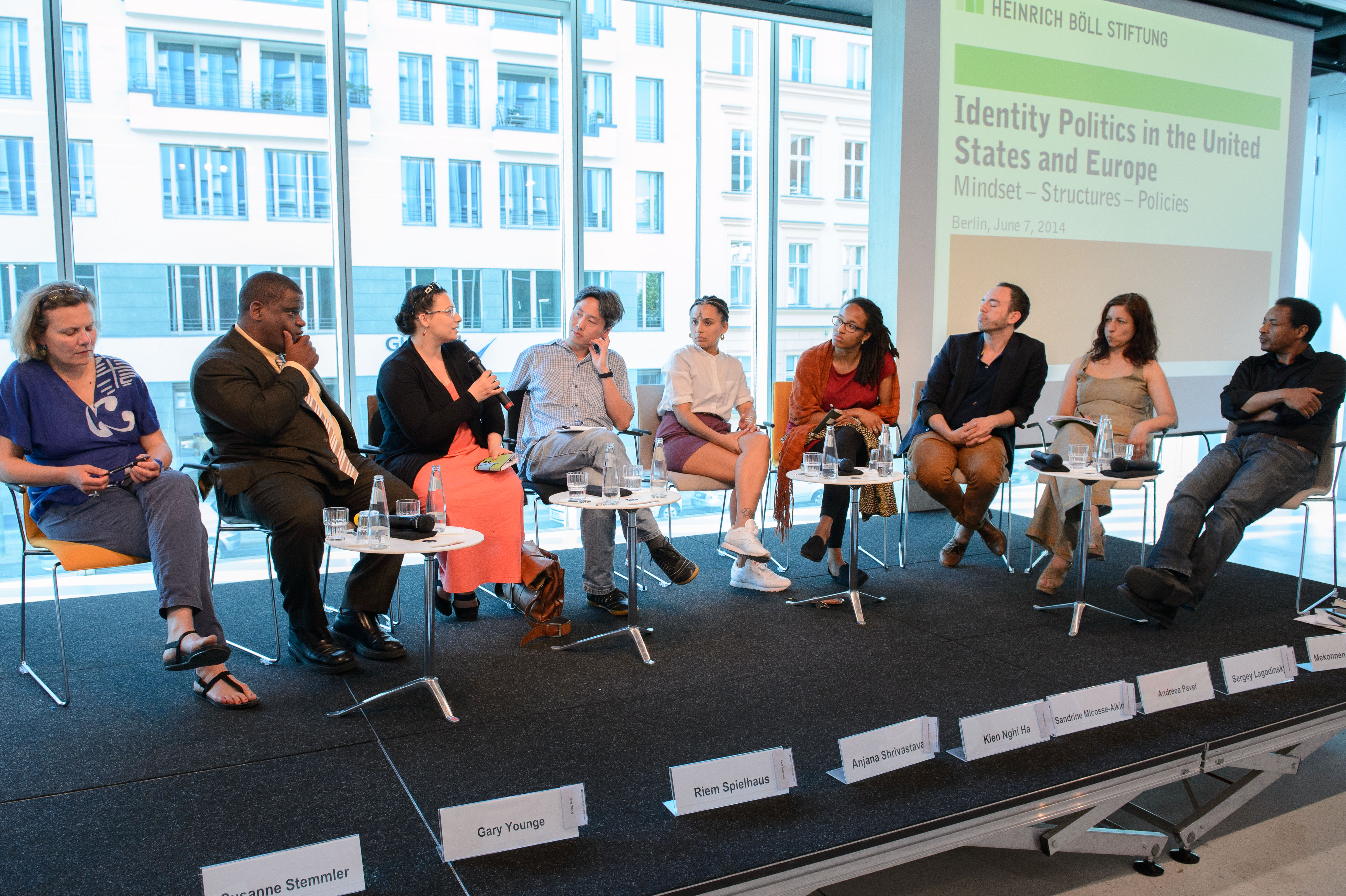 Susanne Stemmler (Cultural Theorist and Critic), Gary Younge (The Guardian, Journalist and Author), Riem Spielhaus (Professor for Islamic Studies), Kien Nghi Ha (Political Scientist and Cultural Theorist), Andreea Pavel (DJ), Sandrine Micosse-Aikins (Artist and Curator), Sergey Lagodinsky (Jewish Community in Berlin, Heinrich-Böll-Stiftung), Anjana Shrivastava (Die Neue Weltbühne), Mekonnen Mesghena (Heinrich-Böll-Stiftung), Foto